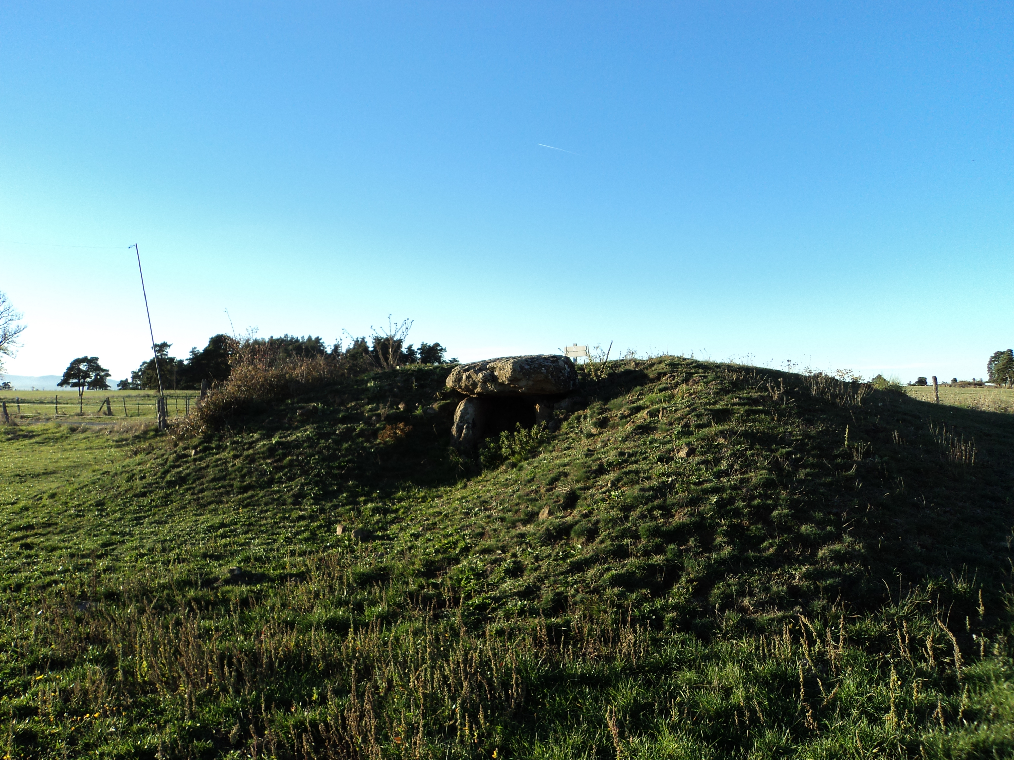 Object location45° 02′ 35.88″ N, 3° 06′ 54.36″ E